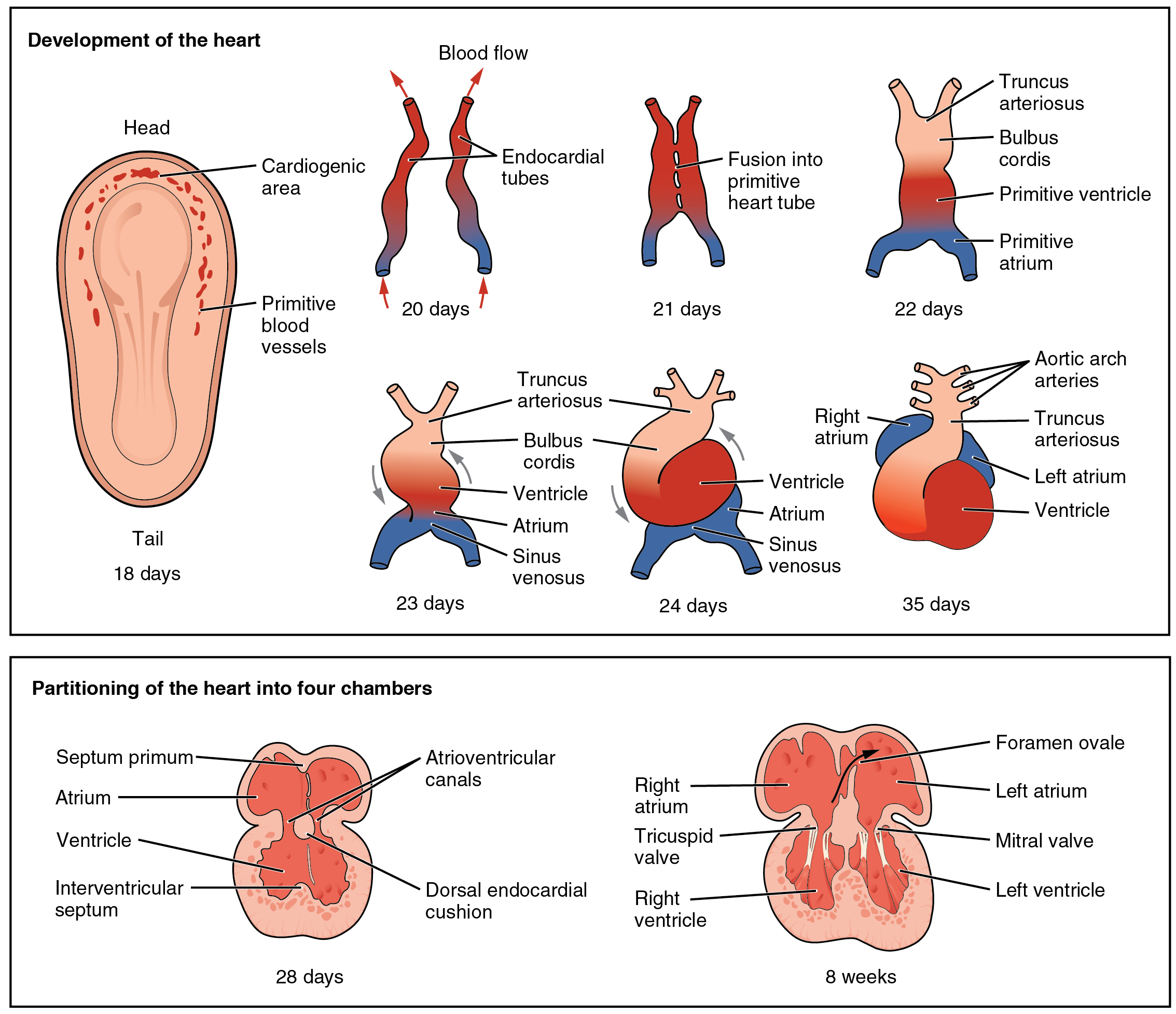 Illustration from Anatomy & Physiology, Connexions Web site. Jun 19, 2013.